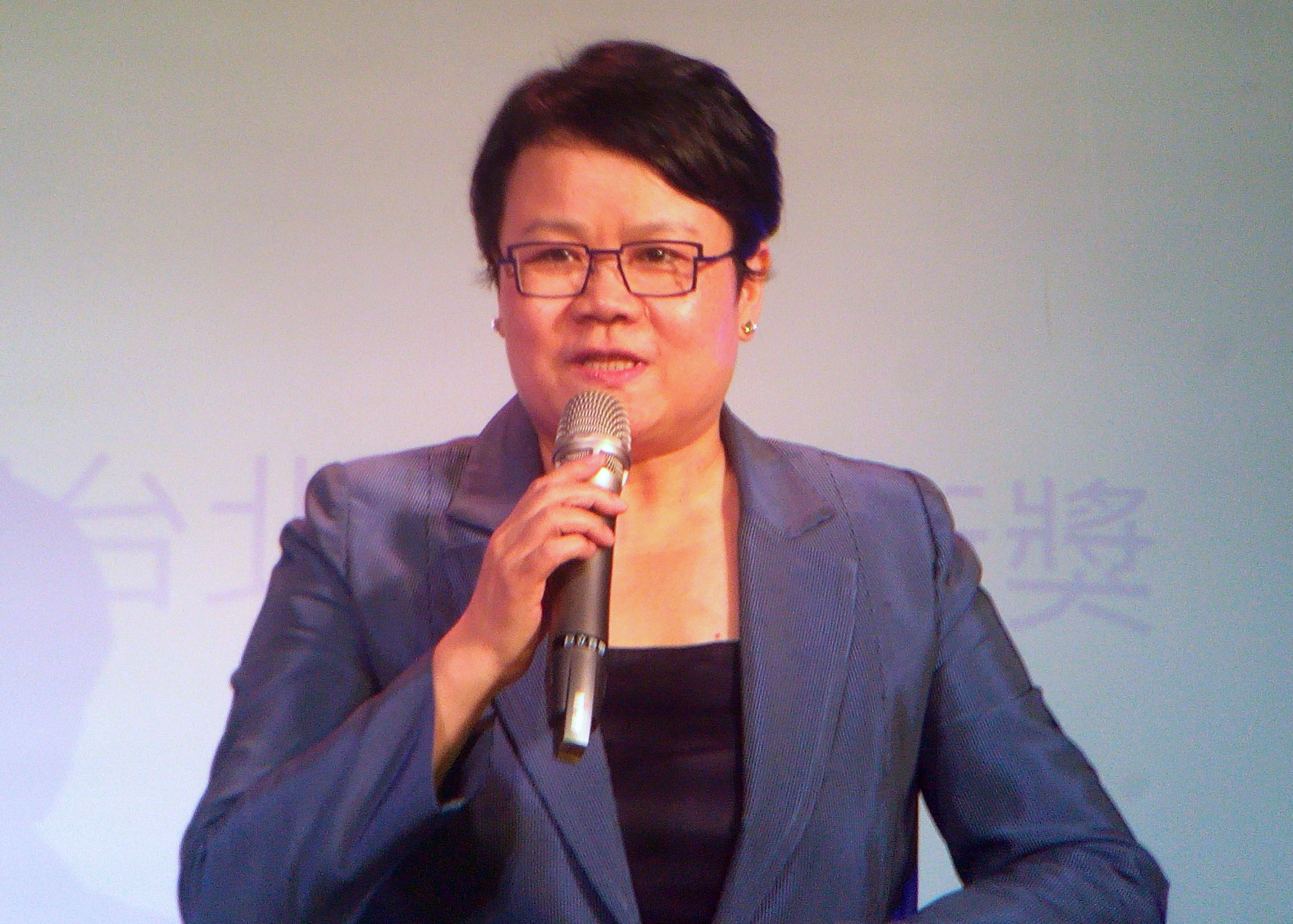 Jaclyn_Tsai, Minister of the Mongolian and Tibetan Affairs Commission (MTAC) of the Executive Yuan.